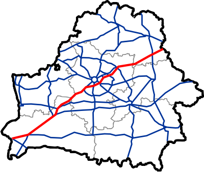 Map of main automobile roads in Belarus with M1 motorway selected